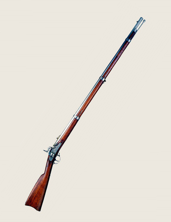 The Springfield Model 1861 rifled musket